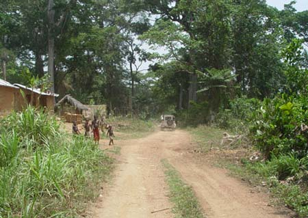 typical rural road scene in Kailahun District, Sierra Leone (original title: "Kailahun Koindu road")